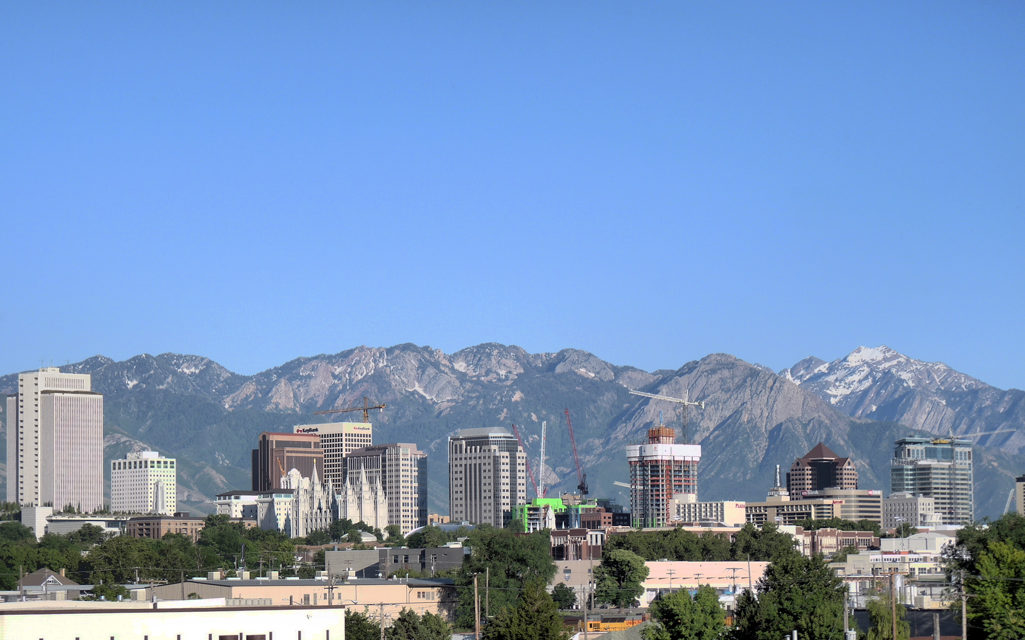 Downtown Salt Lake City in June 2009.